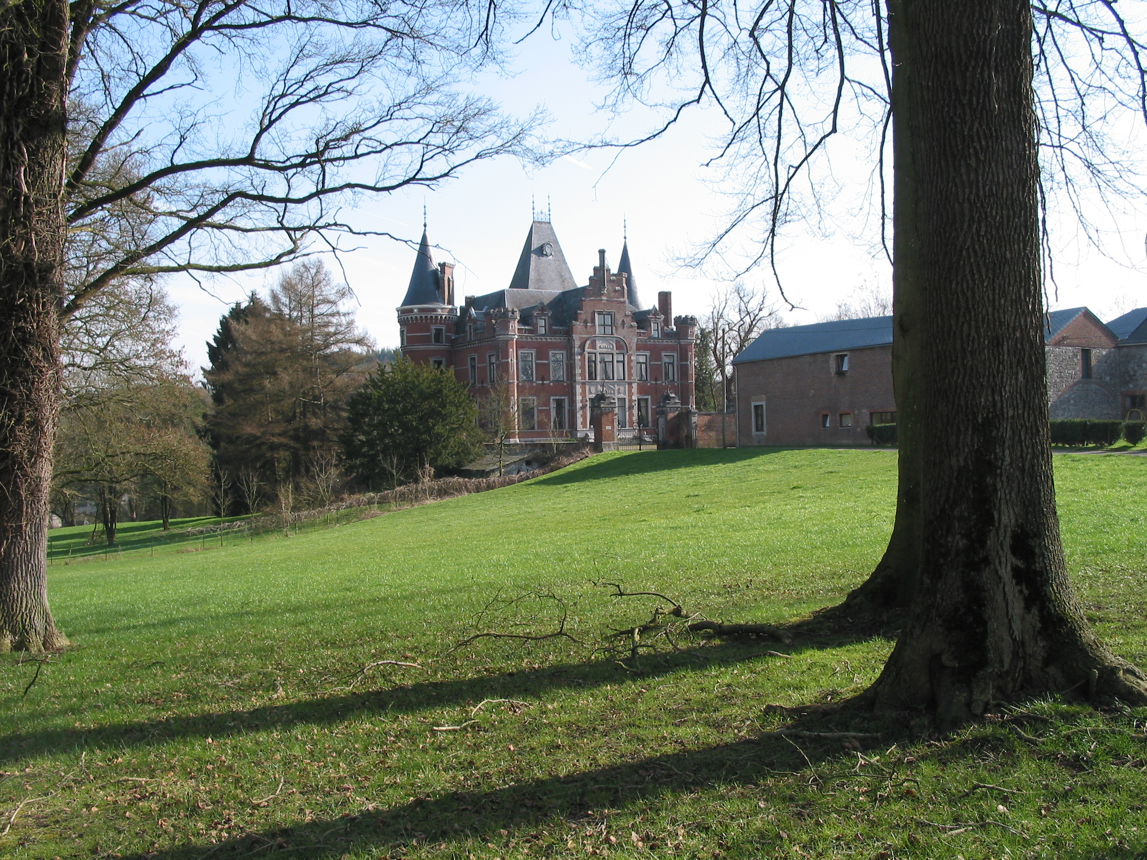 Goyet (Belgium), the « new » castle (architect: Vierset-Godin – 1824/1891).